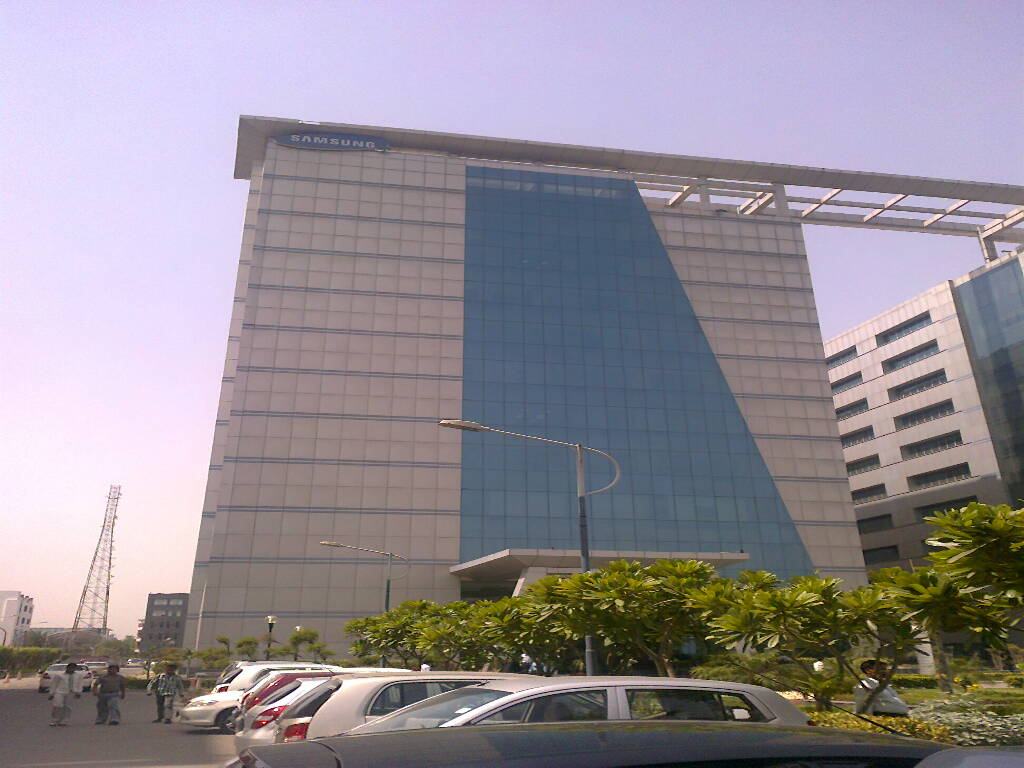 View of Tower-A Logix Cyber Park, Noida